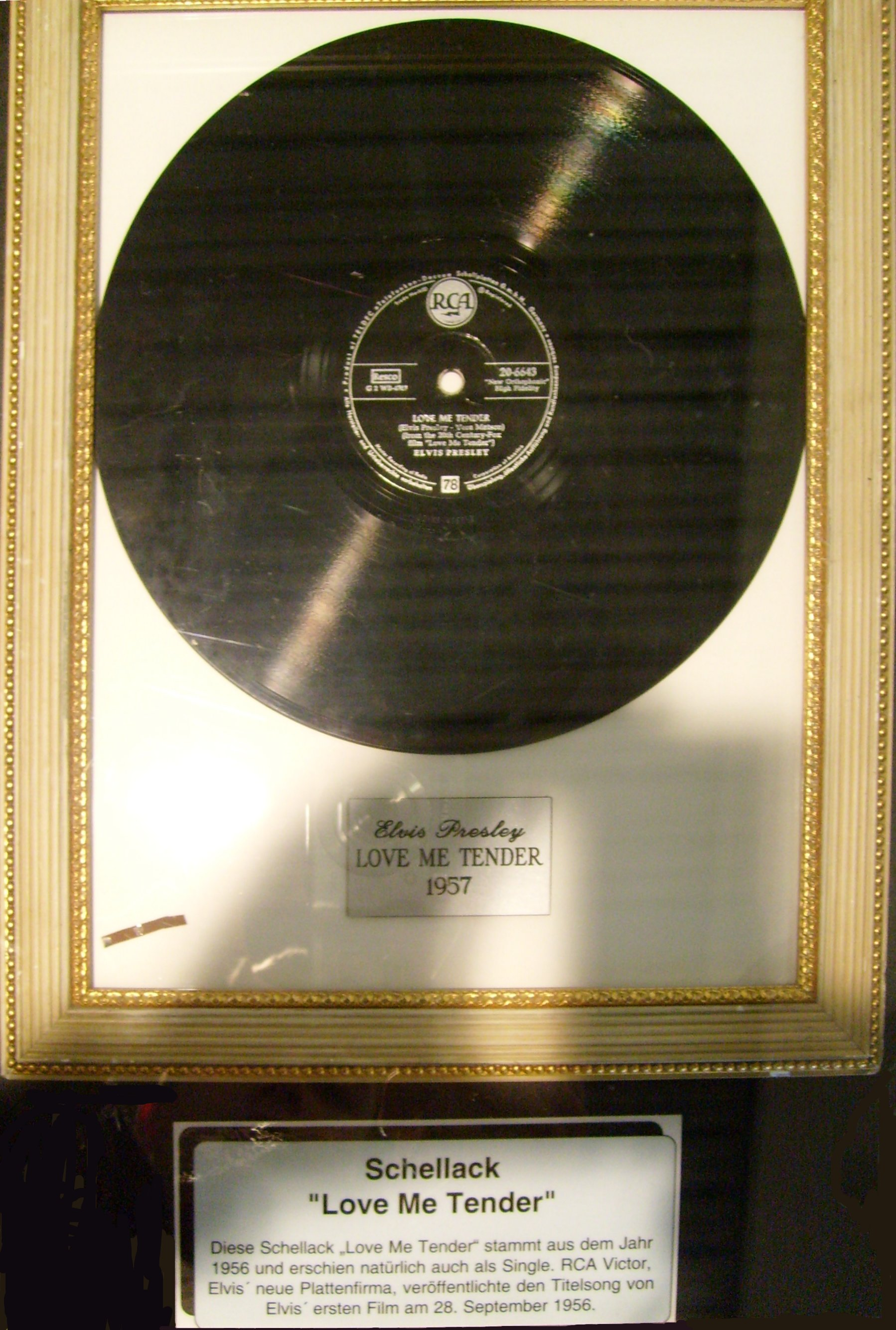 Love Me Tender Vinyl by Elvis Presley